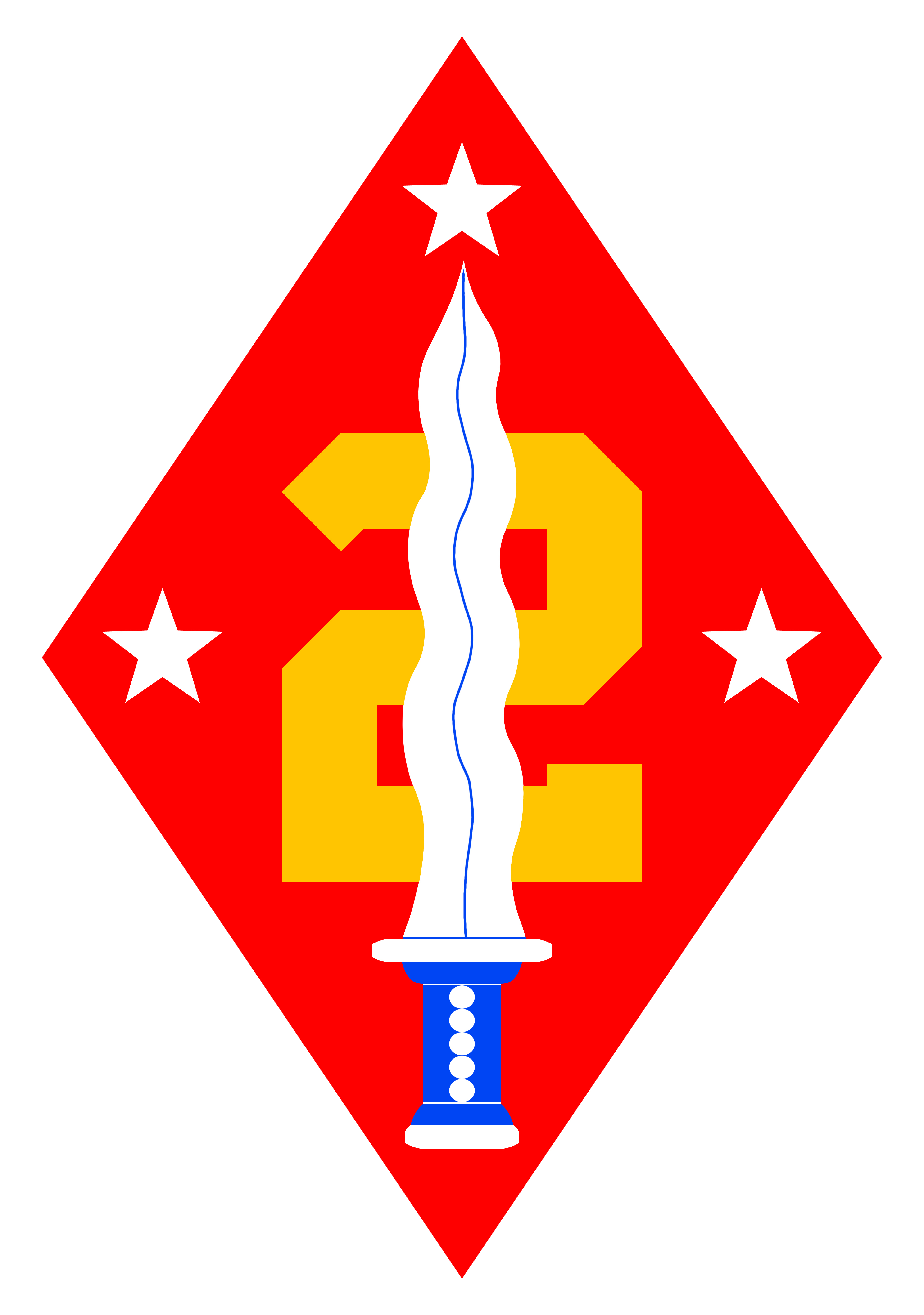 2nd Philippine Division emblem from 1941-42 (version 1), possibly not developed until late in that period or just after; color versions of this are a matter of record, and bronze version(s) of these emblems are seen on monuments around the Philippines.